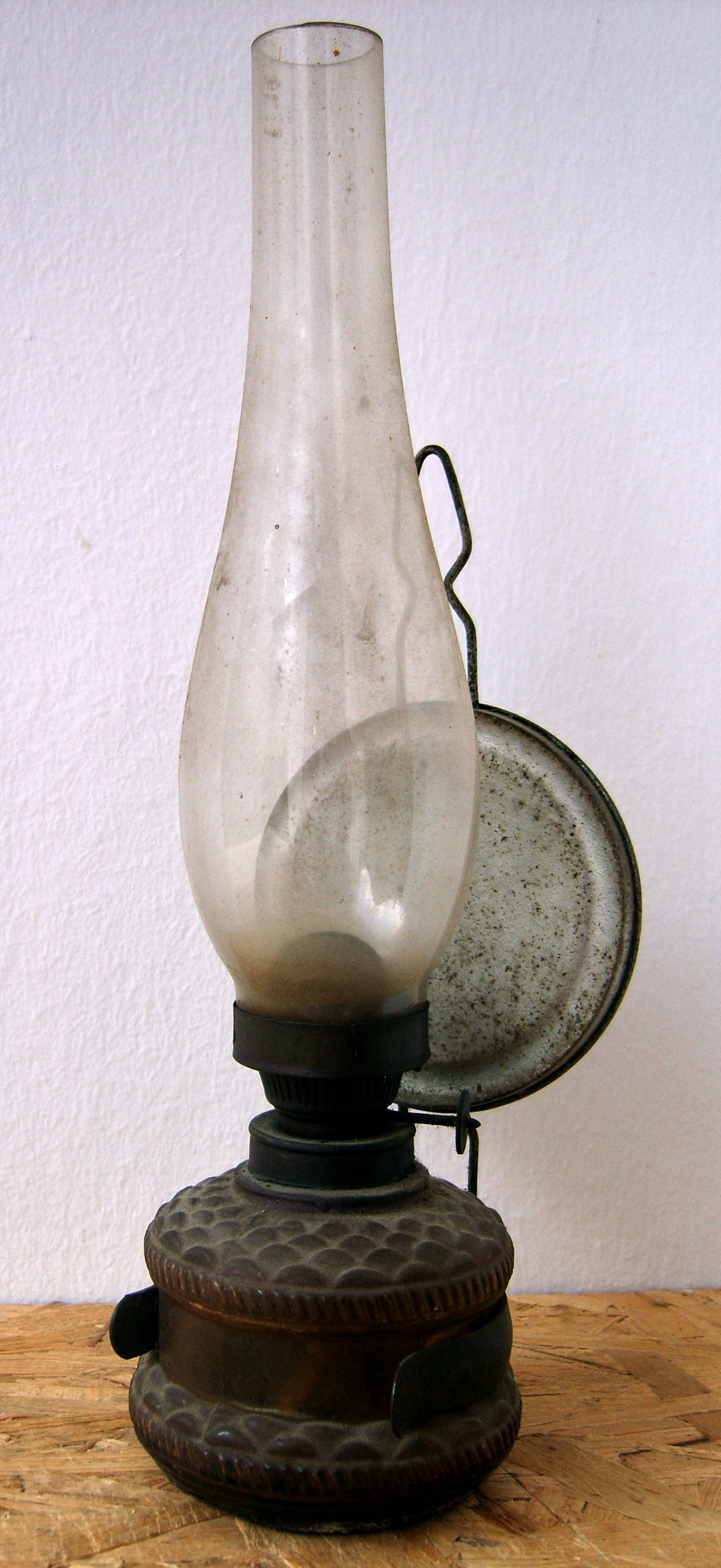 Kerosene lamp